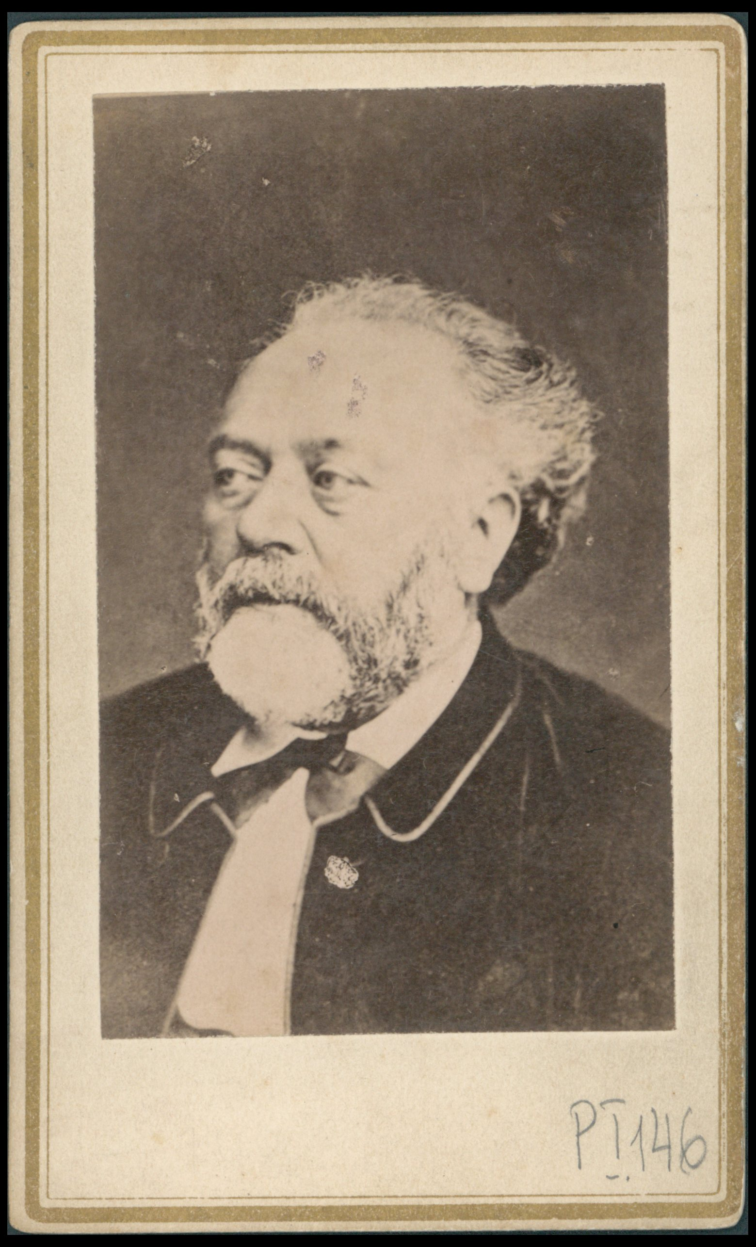 Berthold Auerbach, ok. 1880 r.